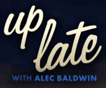 Up Late with Alec Baldwin logo/title